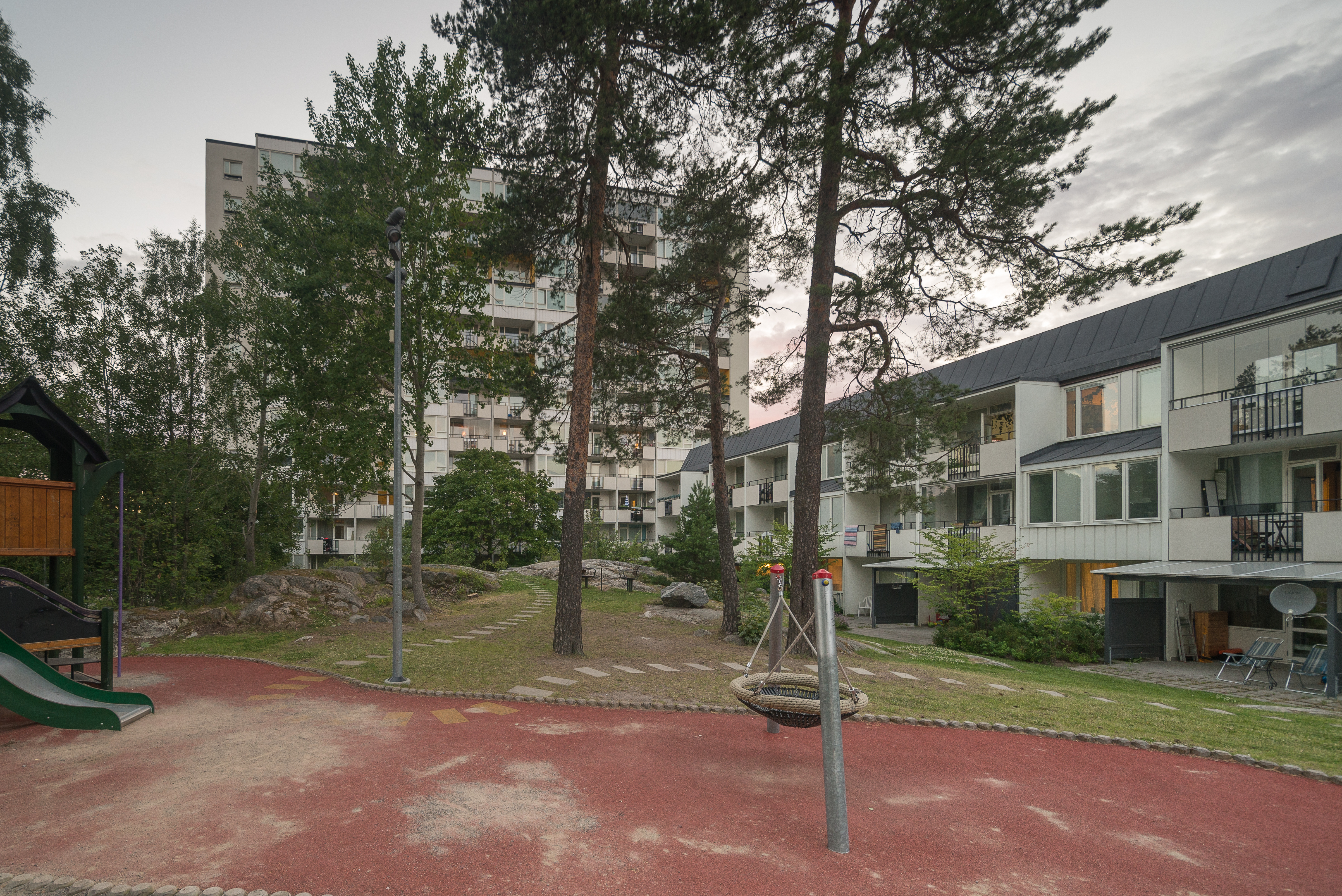 Ungdomshotellet in Hässelby gård. Built 1957, architect Hjalmar Klemming.